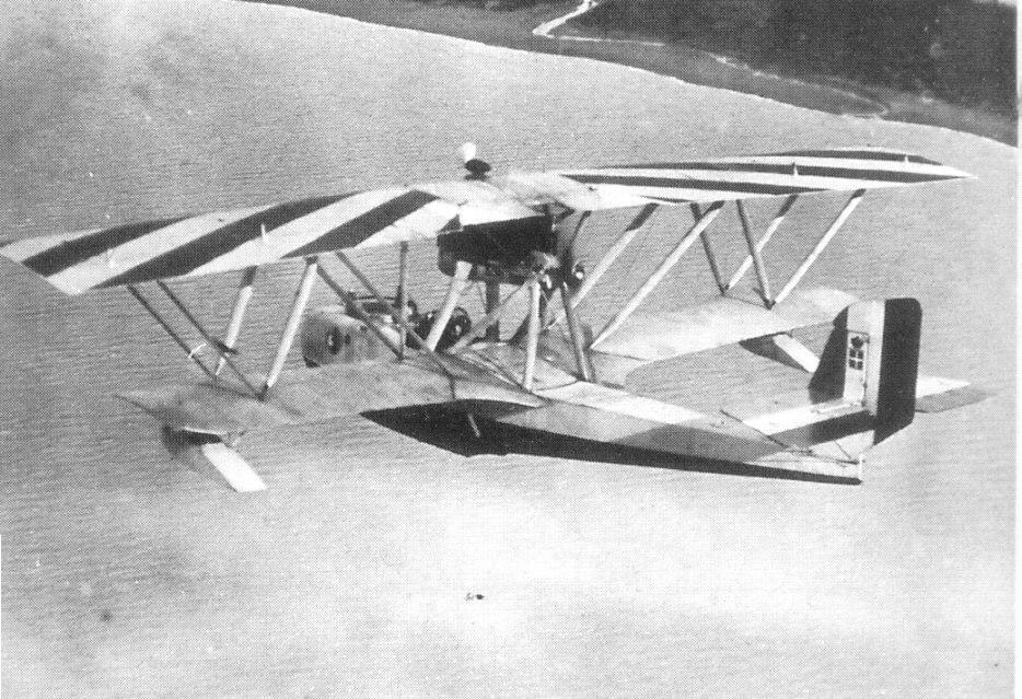 Italian Macchi M.18 flying boat